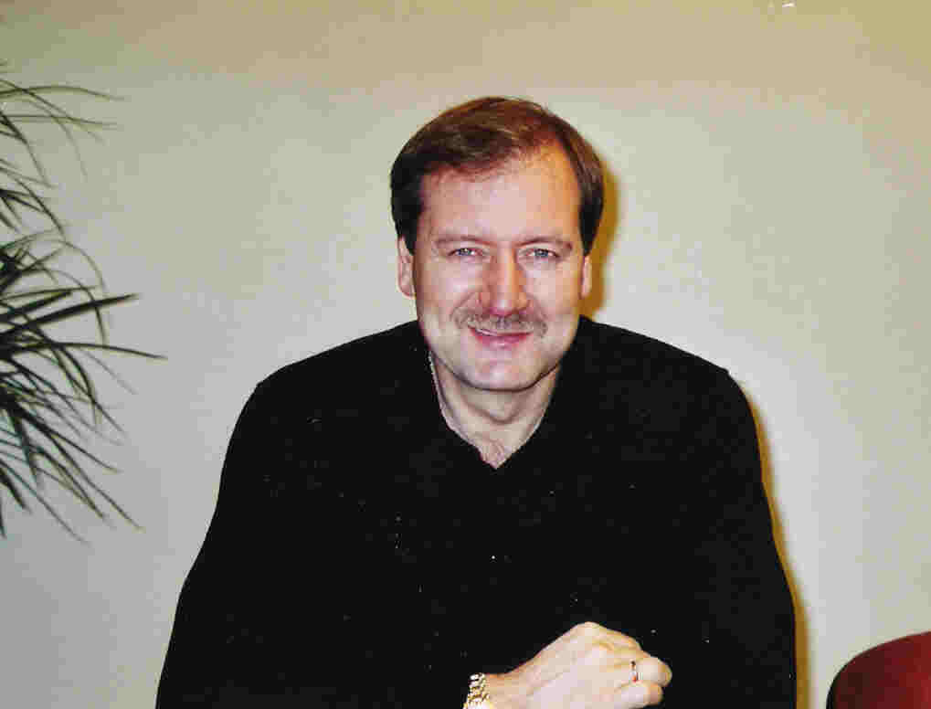 Viktor Uspaskich